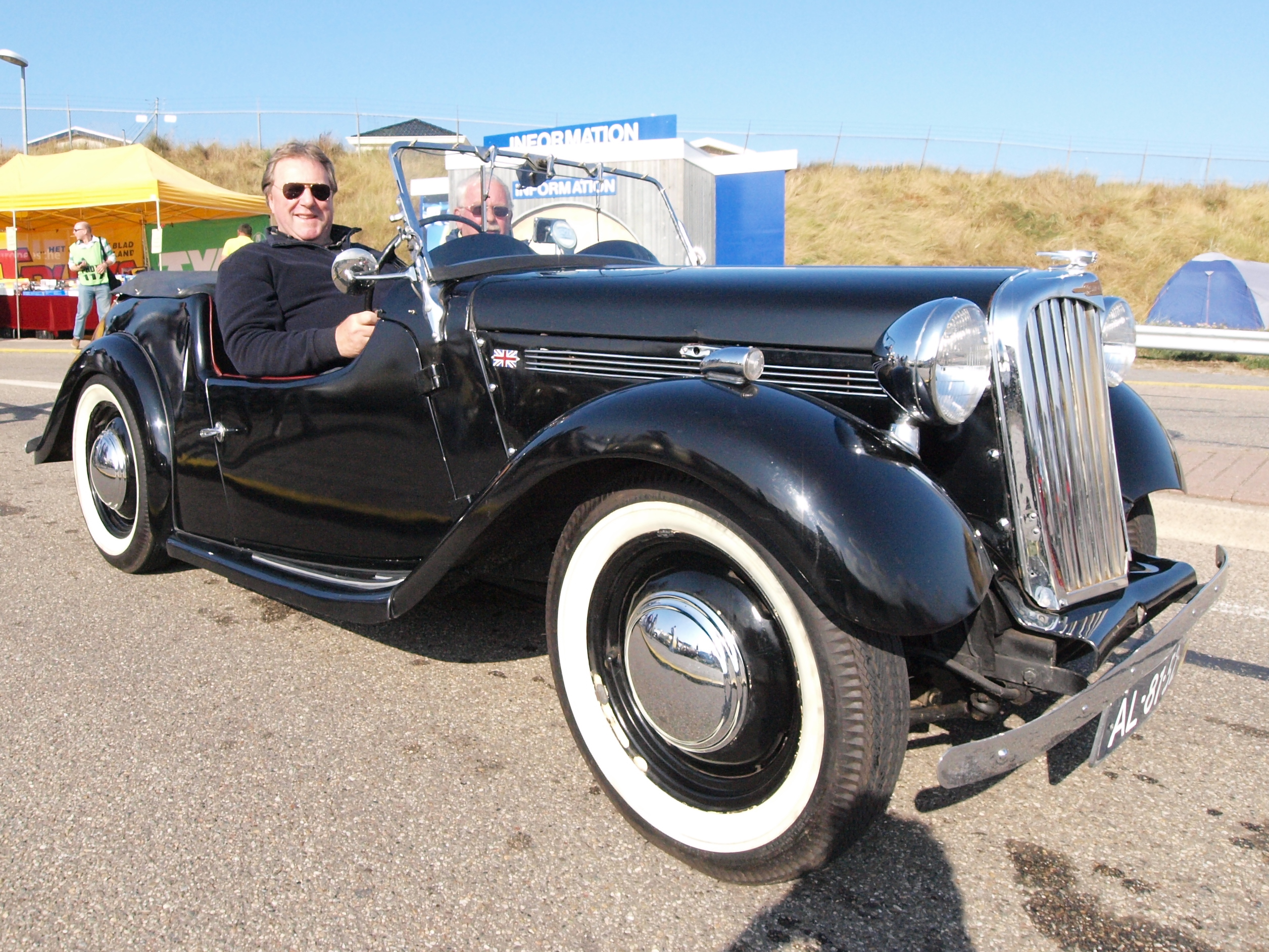 First registered in September 1951, a Singer 4AB Roadster retrofitted with a 1497cc engine photographed at the Nationaal Oldtimer Festival Zandvoort 2009, The Netherlands.